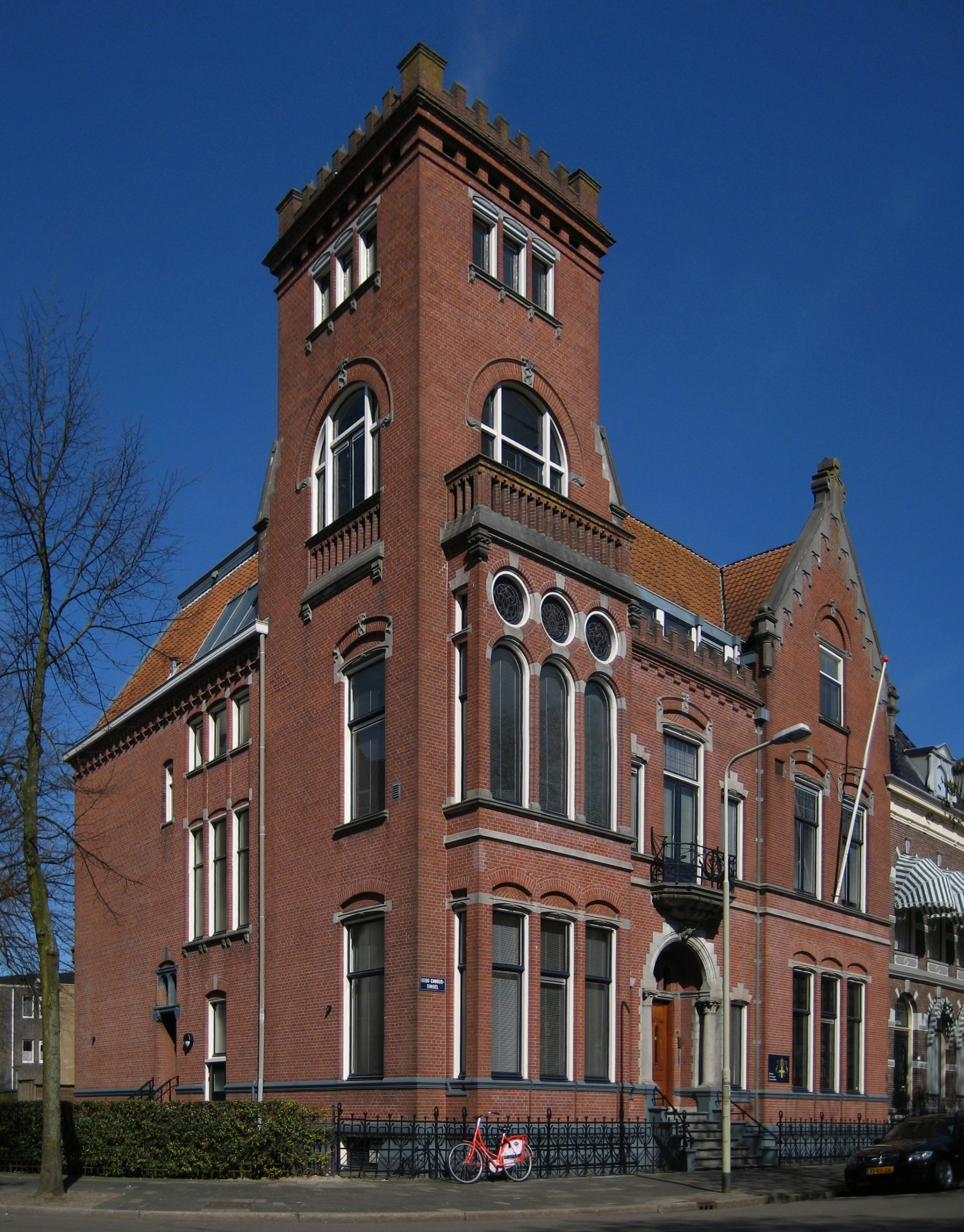 Building (1901-'02) in the Dutch city of Groningen.